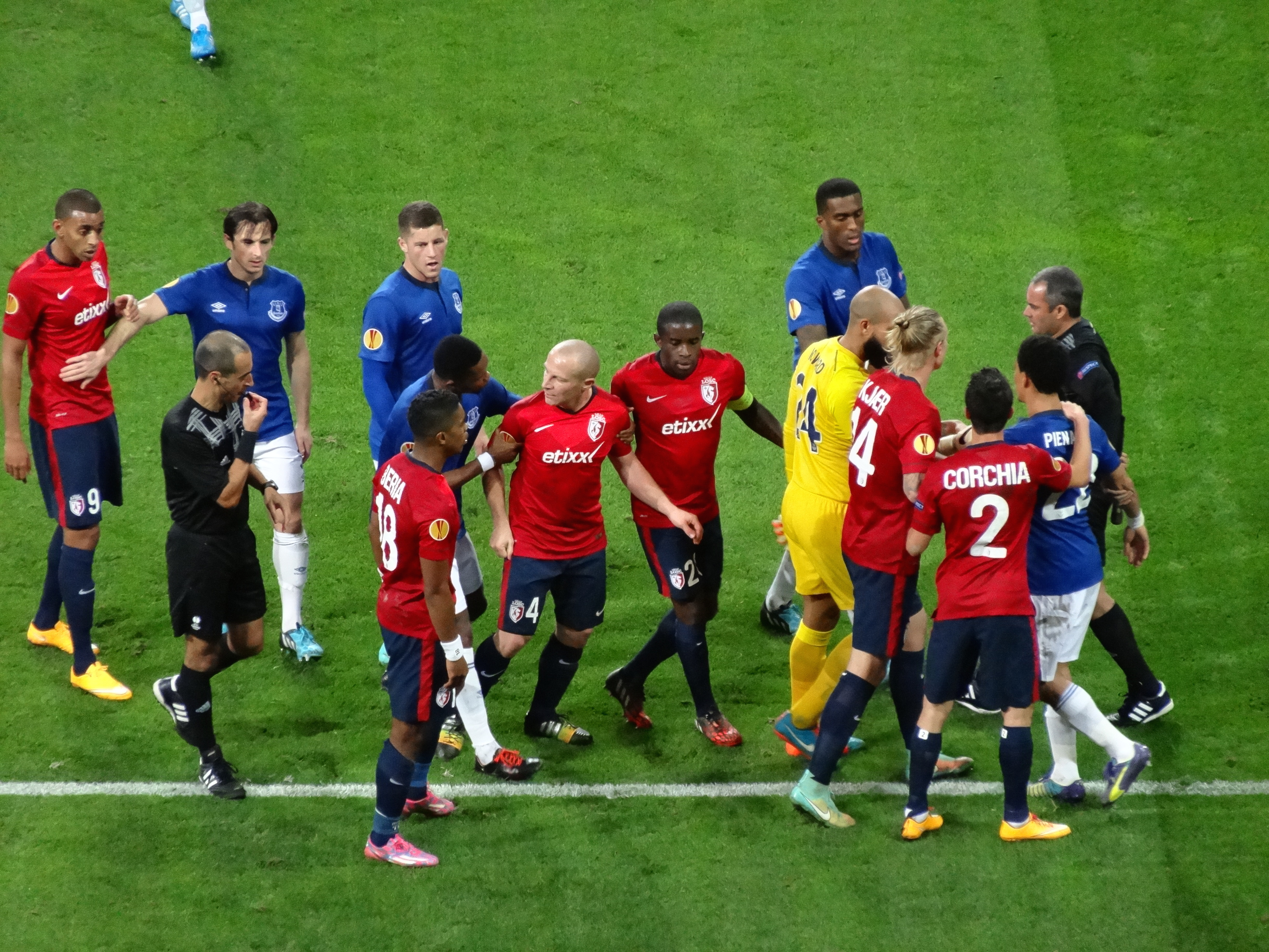 LOSC Lille vs Everton FC (Europa League 2014-2015)